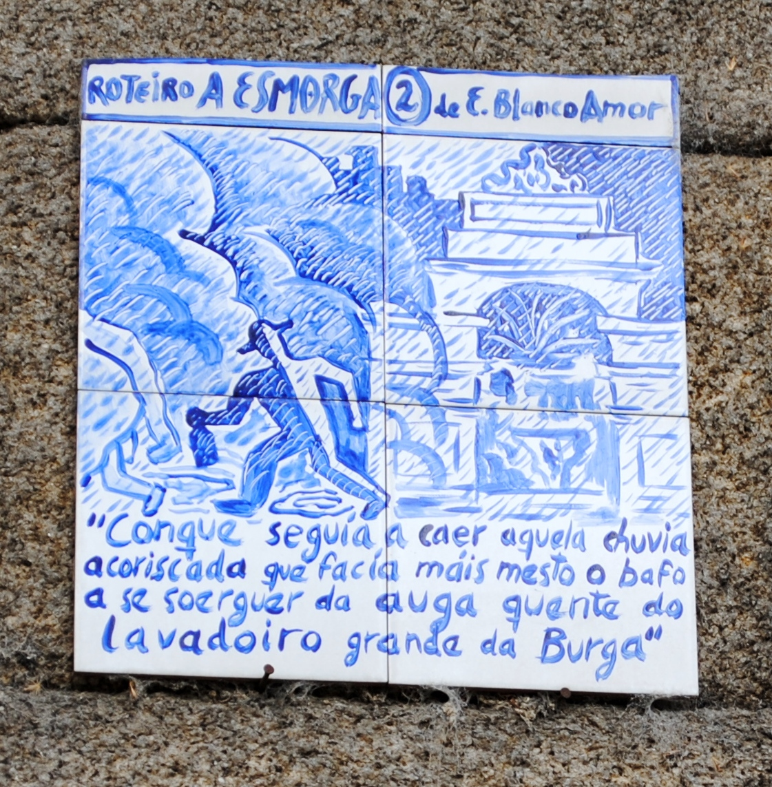 See title.